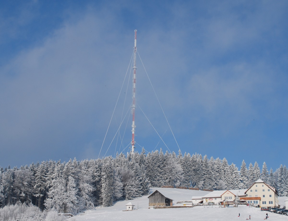 Mount "Lichtenberg" in Lichtenberg, Upper Austria. View from the parking area to the summit with the transmitter antenna and the restaurant "Gasthaus zur Gis" in front.